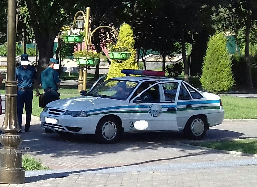 Uzbekistan Police car Chevrolet (Daewoo) Nexia